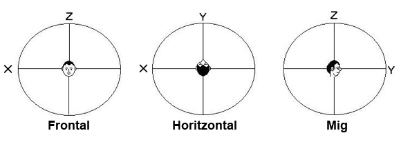 Plans so 3d